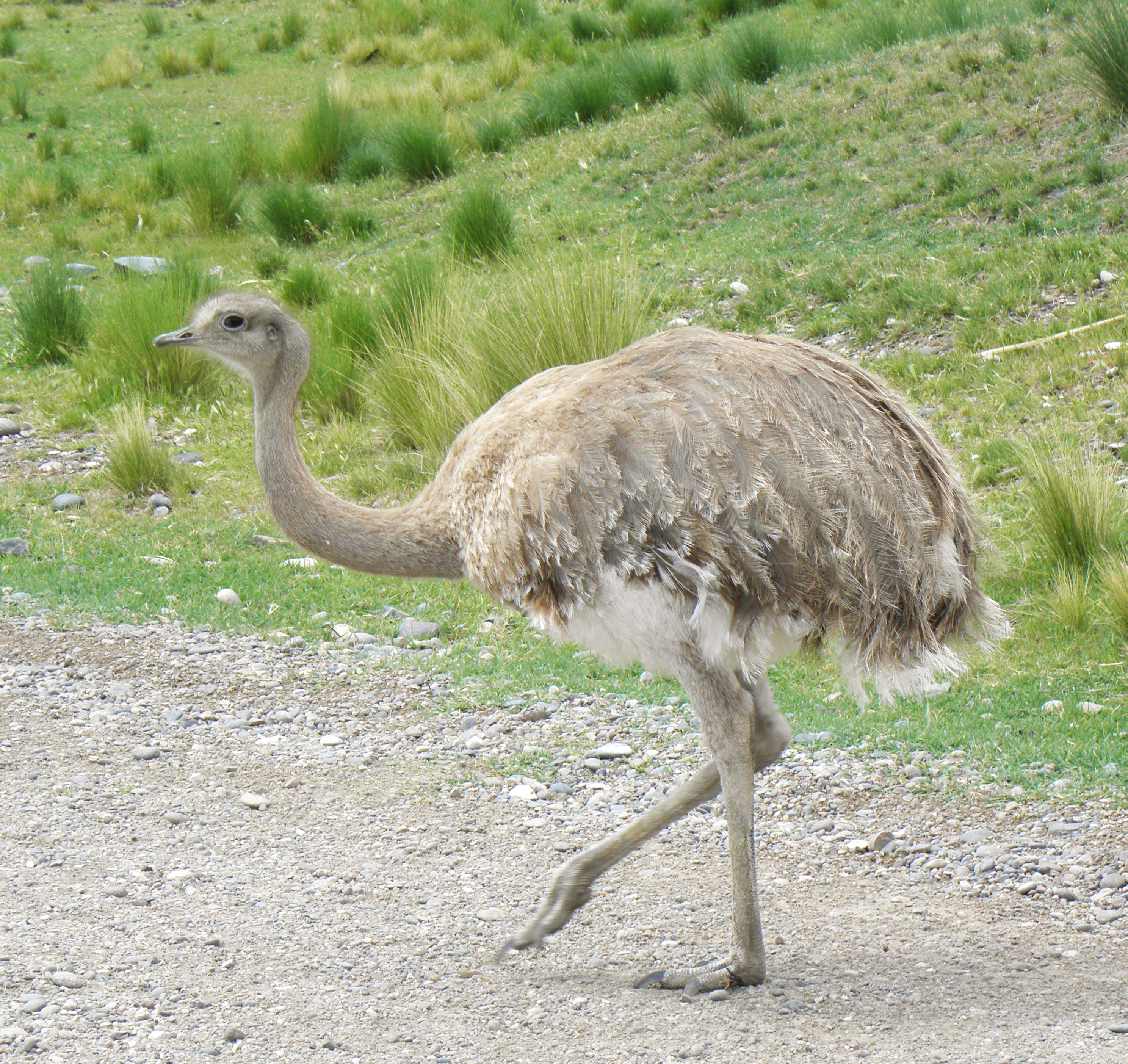 Patagonian Lesser Rhea